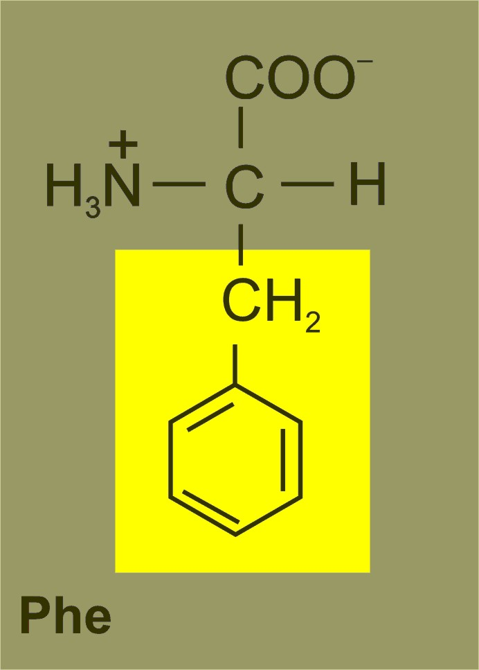 Phenylalanine amino acid formula jpg